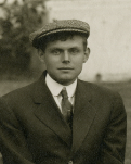 Baseball writer Fred Lieb at the Polo Grounds in 1911